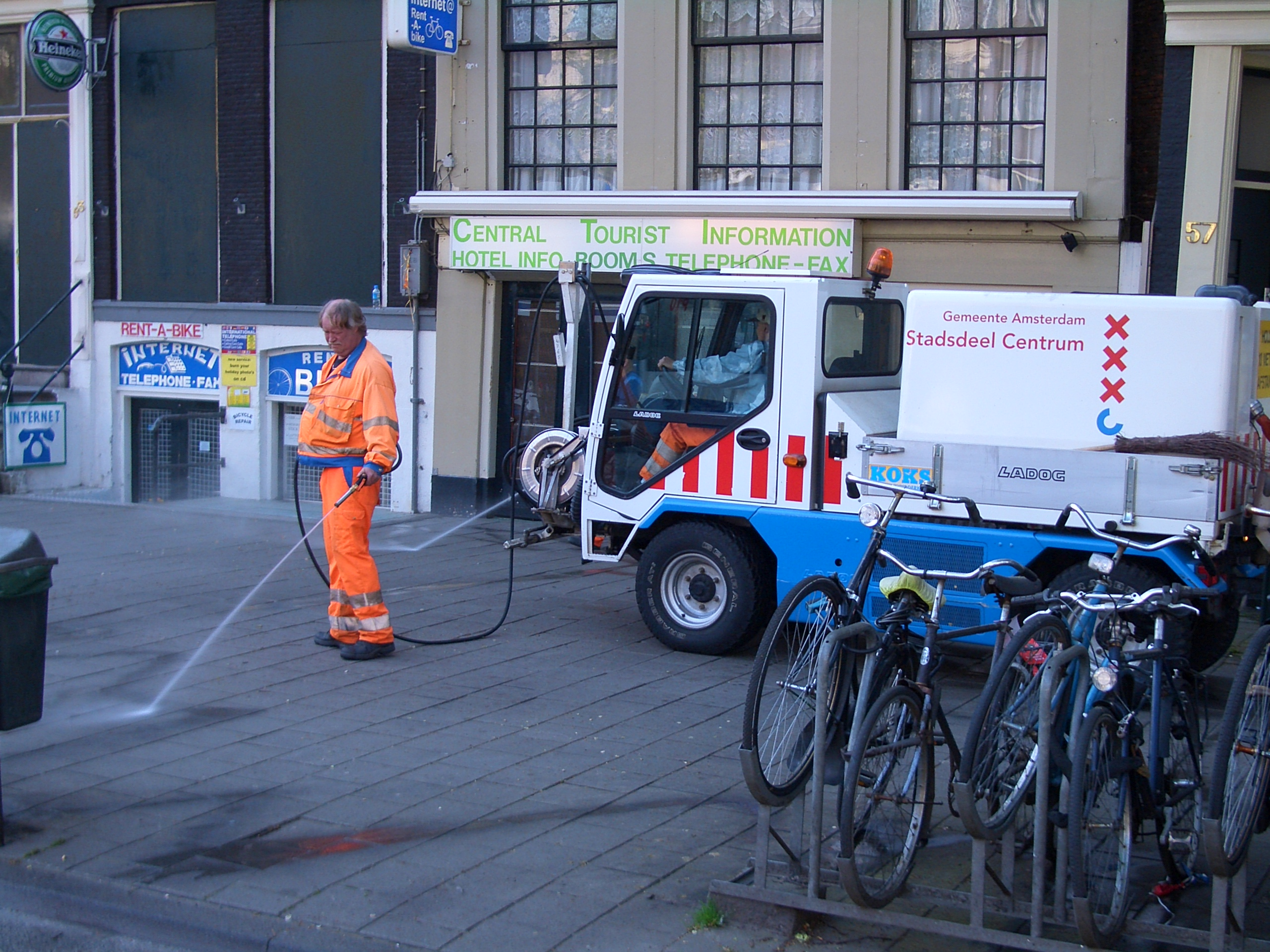 Street cleaning in Amsterdam.